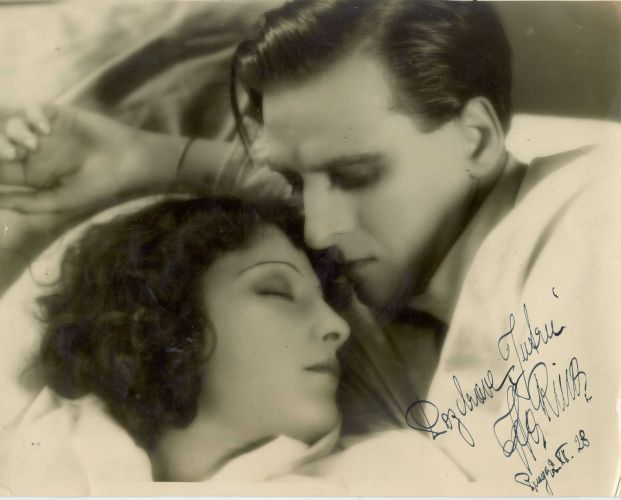 Ita Rina (1907-1979)